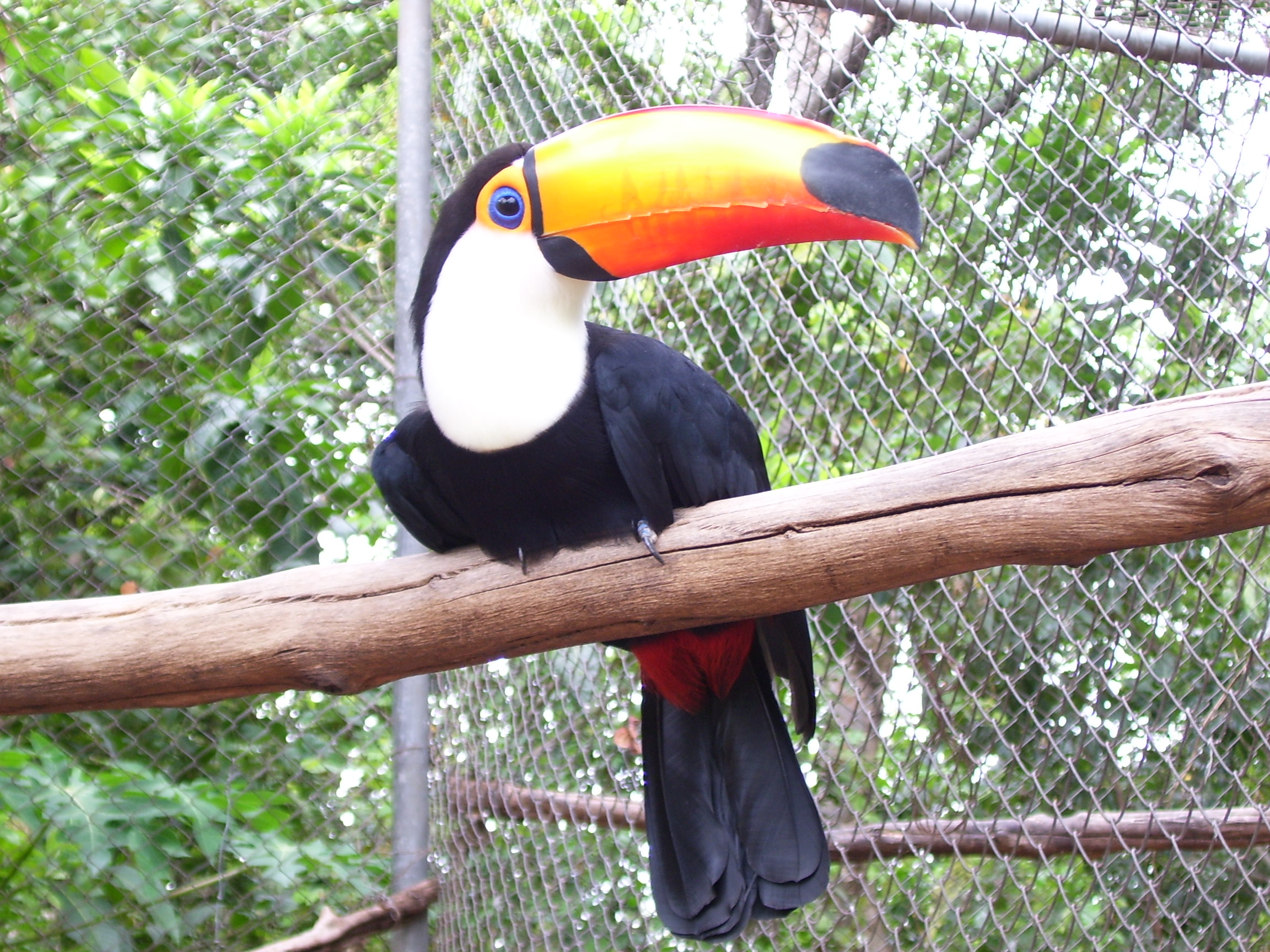 Toco Toucan (Ramphastos toco), in the zoo of Federal University of Mato Grosso, Cuiabá, Brazil.